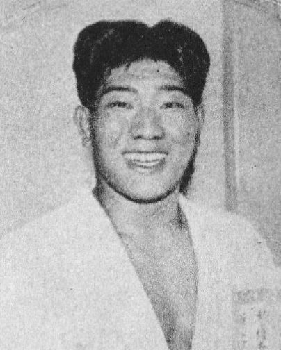 A Japanese judoka, Masayuki Nakajima, who won at the All-Japan Judo Championships in 1934 and 1935.